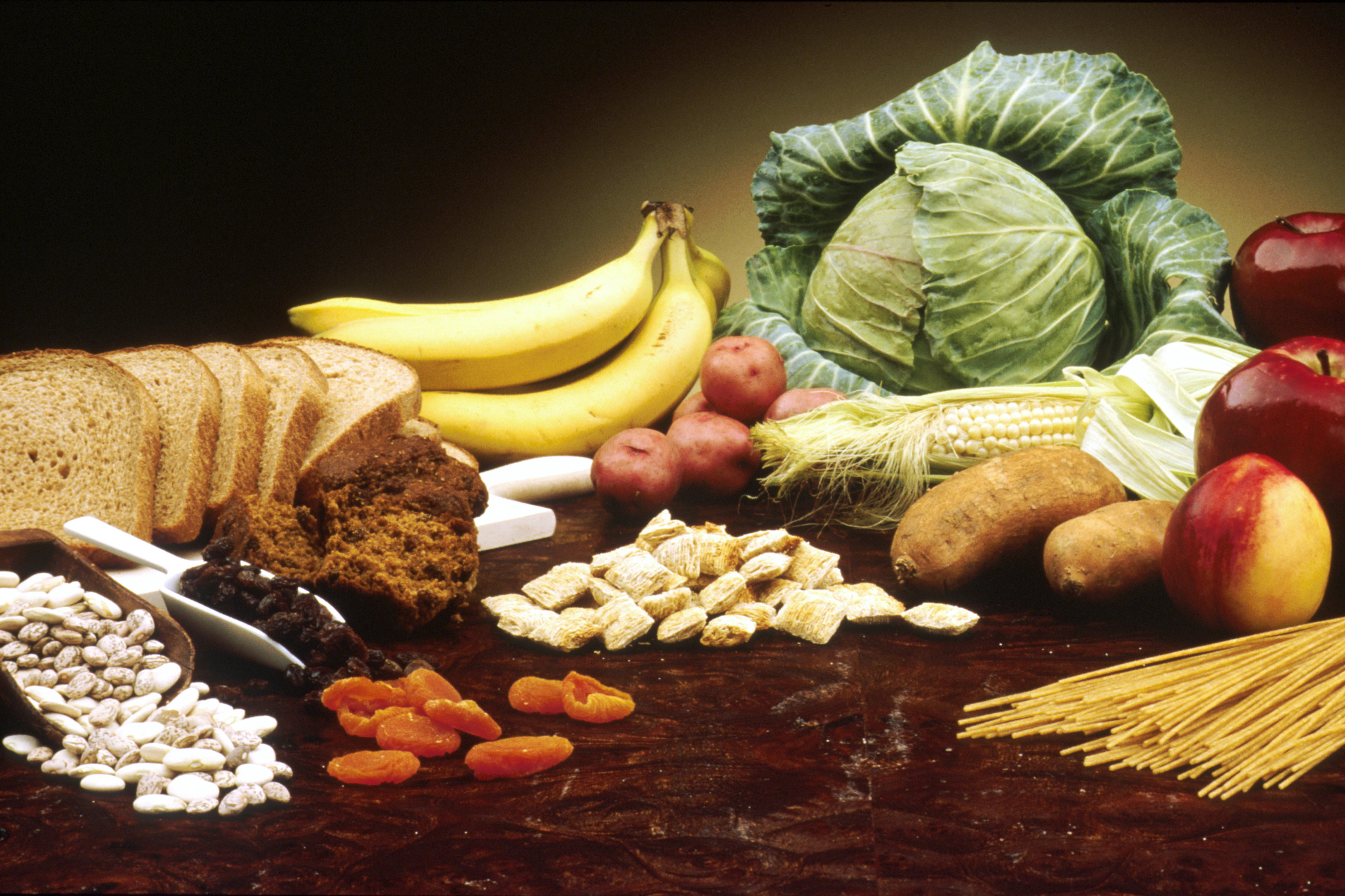 A wooden table containing: a ladle full of beans, a sliced loaf of brown bread, a bunch of bananas, muffins, small potatoes, a head of cabbage, an ear of corn, a pile of cereal, yams, apples, a nectarine and some spaghetti. See also AV-3905 and AV-3906. AV Number: AV-8900-3828 Reuse Restrictions: None - This image is in the public domain and can be freely reused. Please credit the source and/or author listed above.